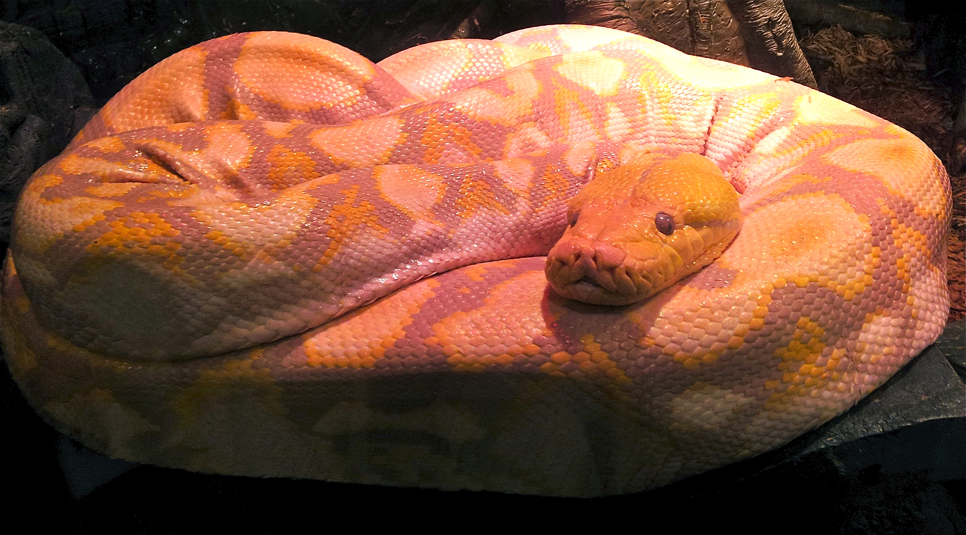 Lemondrop, an albino reticulated python, housed at the California Academy of Sciences in Golden Gate Park of San Francisco, California